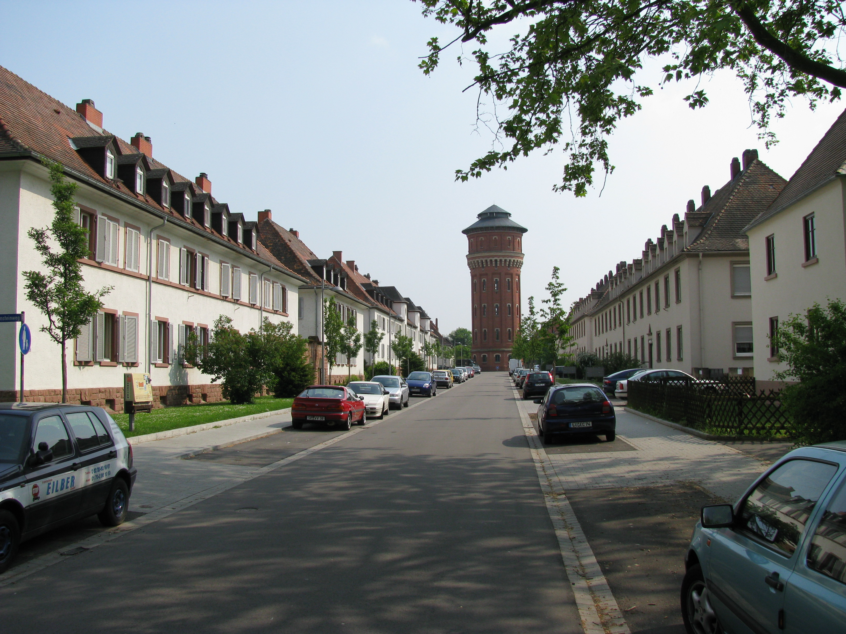 Speyer water tower seen from the north and co-op housing built in the 1920s